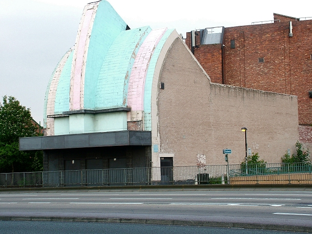 Longford Cinema in May 2007. The exterior is clearly in need of some work.